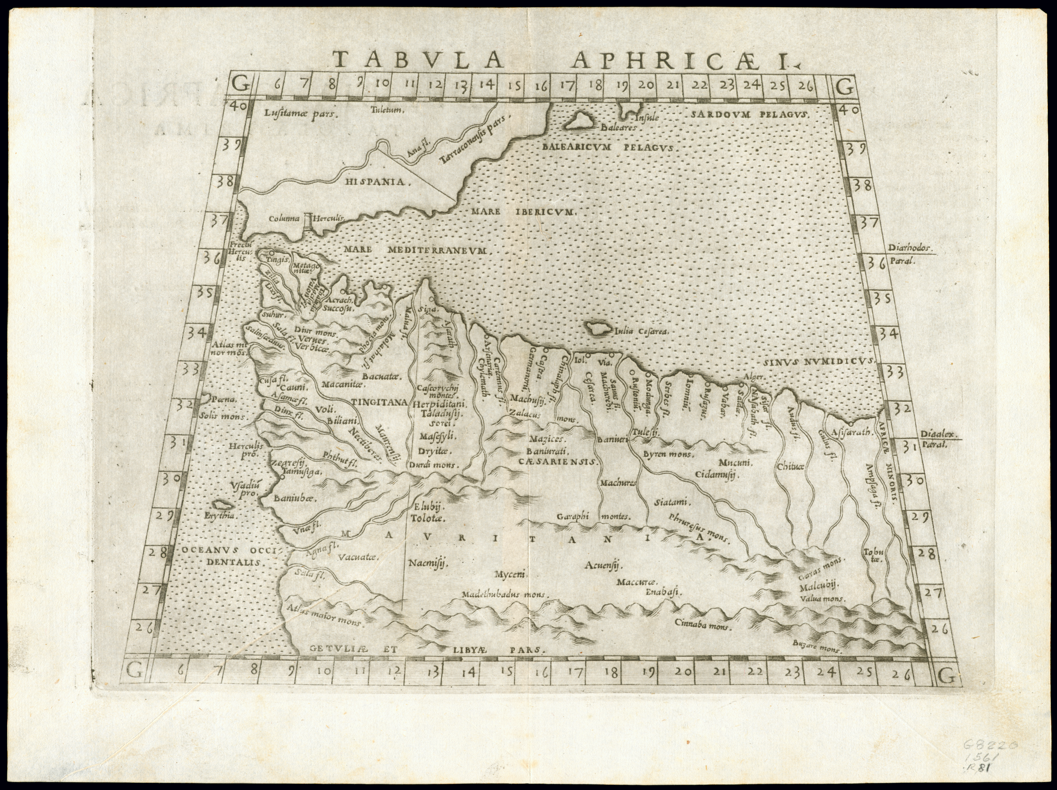 The First Map of Africa (Tabula Aphricae I): Mauretania. Relief shown pictorially. Map covers Northwest Africa. Detached from La geografia di Claudio Tolomeo Alessandrino, and based on a 1548 edition by Giacomo Gastaldi. (Description from:North West University Library)